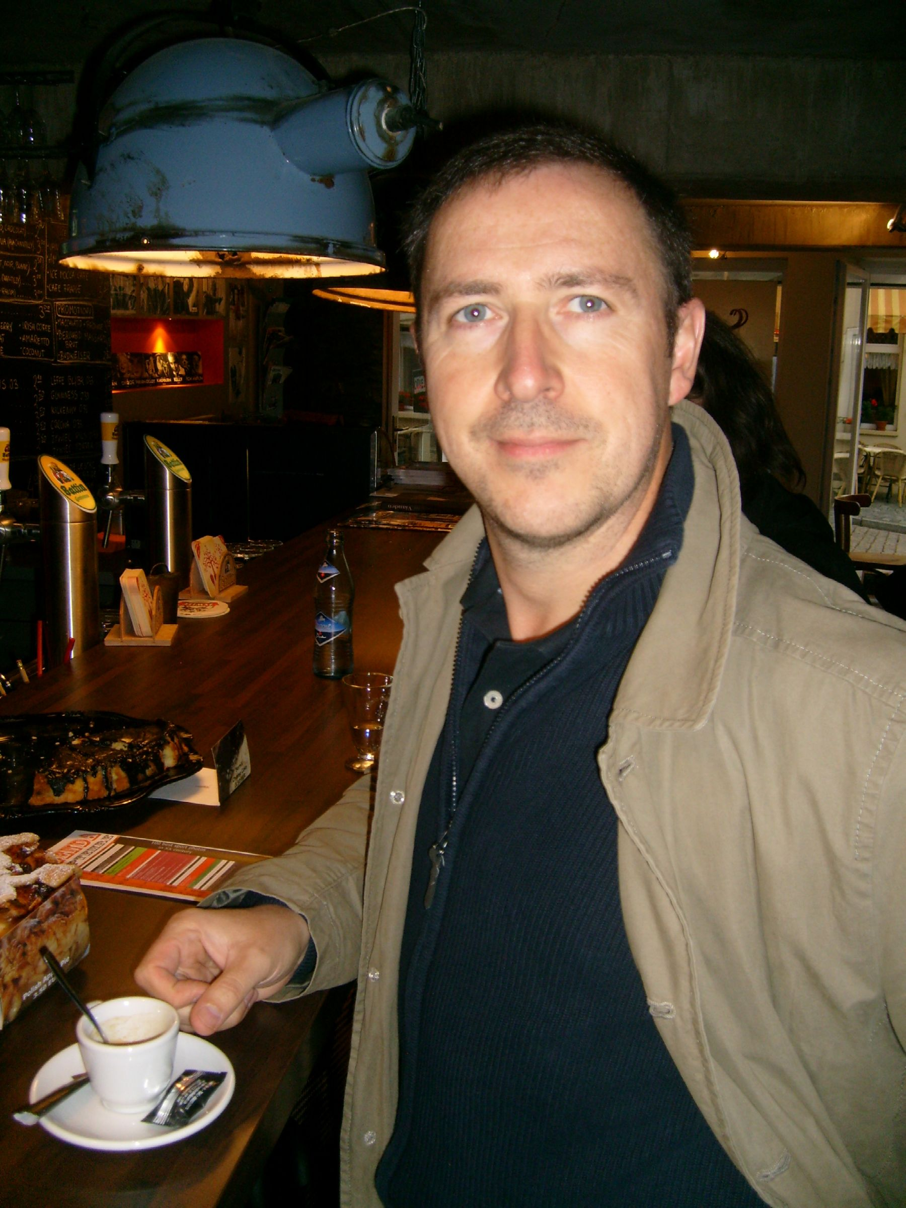 Claude Mangen, luxembourgish radio journalist; theater actor, director and producer. Picture taken at Ancien Cinéma café club in Vianden, Luxembourg.